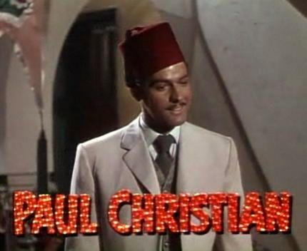 Paul Hubschmid (aka Paul Christian) in Bagdad - trailer (cropped screenshot)